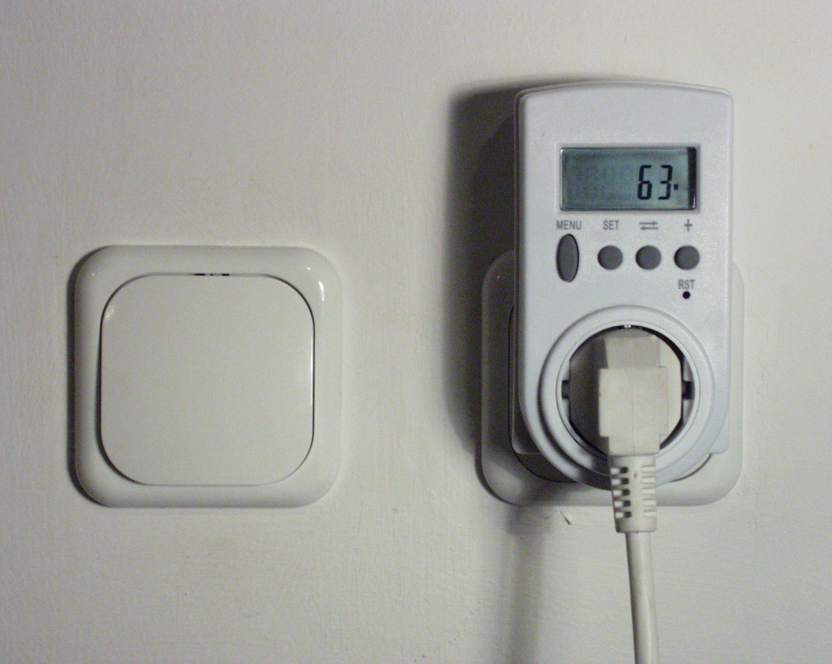 Receptacle wattmeter. (Power: P = 63 W.)